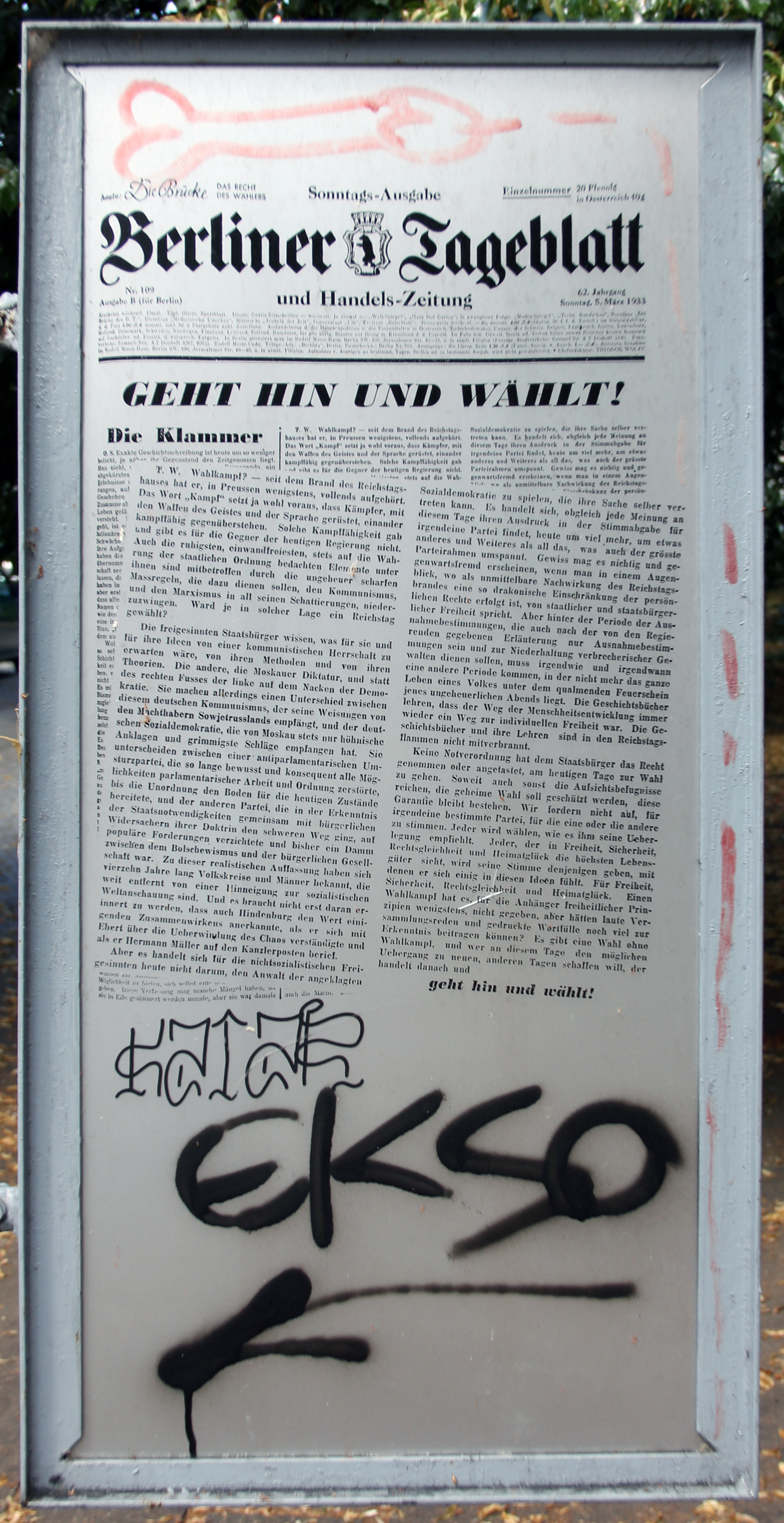 Memorial plaque, Theodor Wolff, Friedrichstraße 244, Berlin-Kreuzberg, Germany